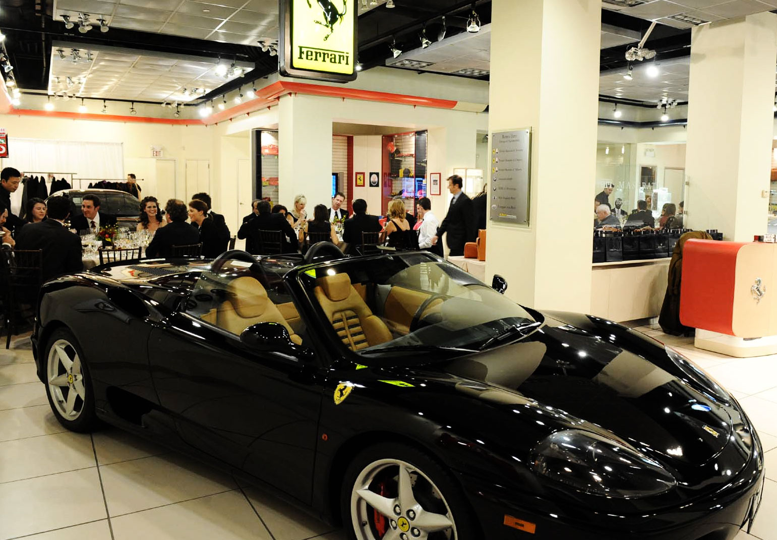 dinner at bse